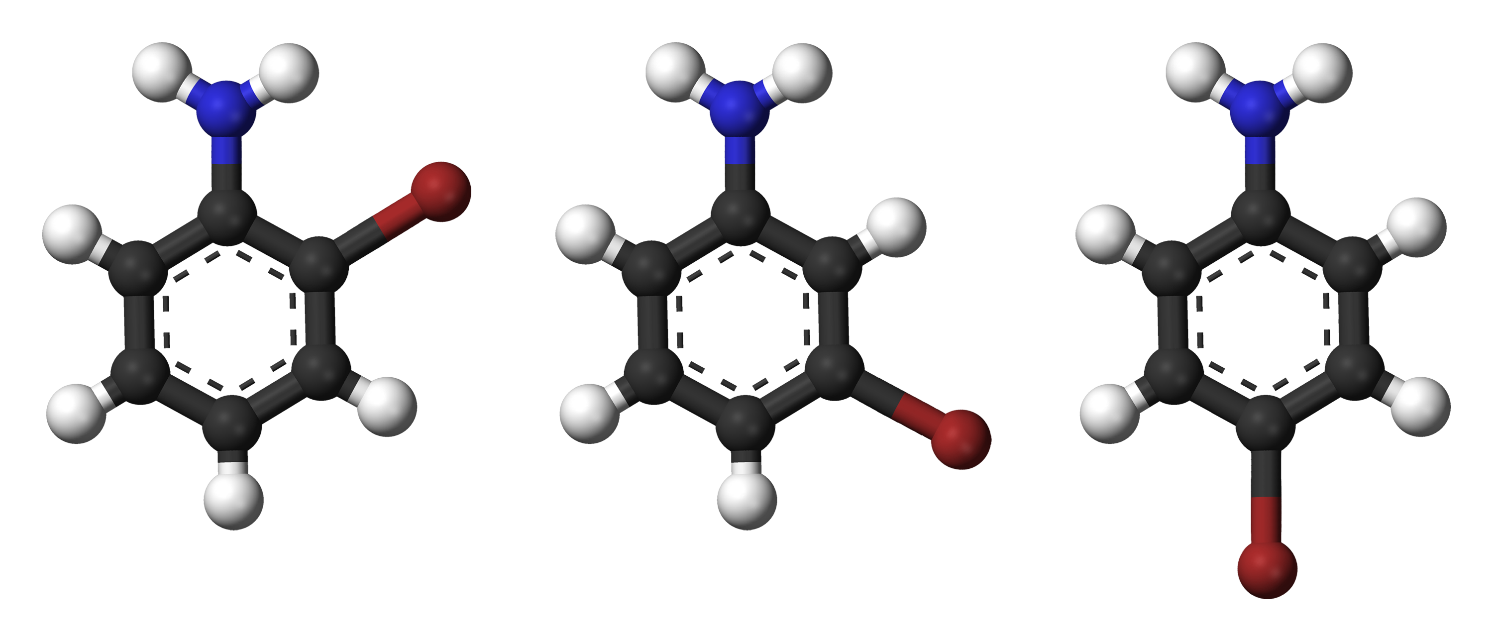 Ball-and-stick models of the three isomers of bromoaniline.